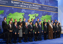 Leaders of the G20 pose for photos at the G20 Summit on Financial Markets and the World Economy in Washington, D.C. on November 15, 2008.